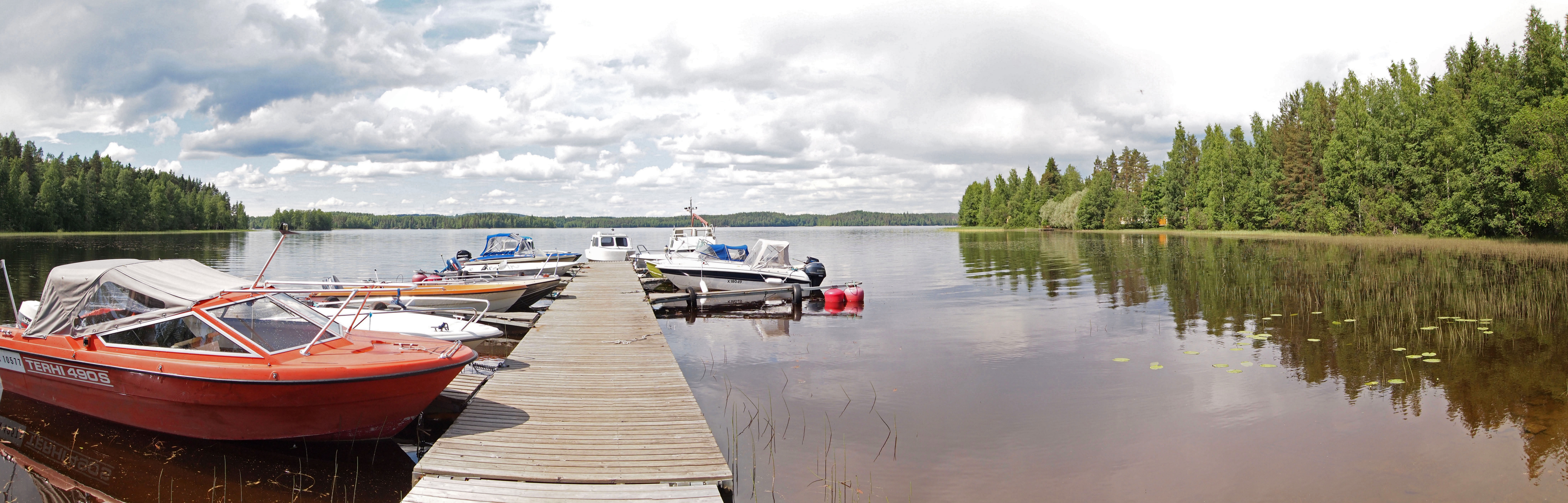 Harbour on bay Hyrtölänlahti in lake Muuratjärvi. This photograph was taken with an Olympus E-PL1